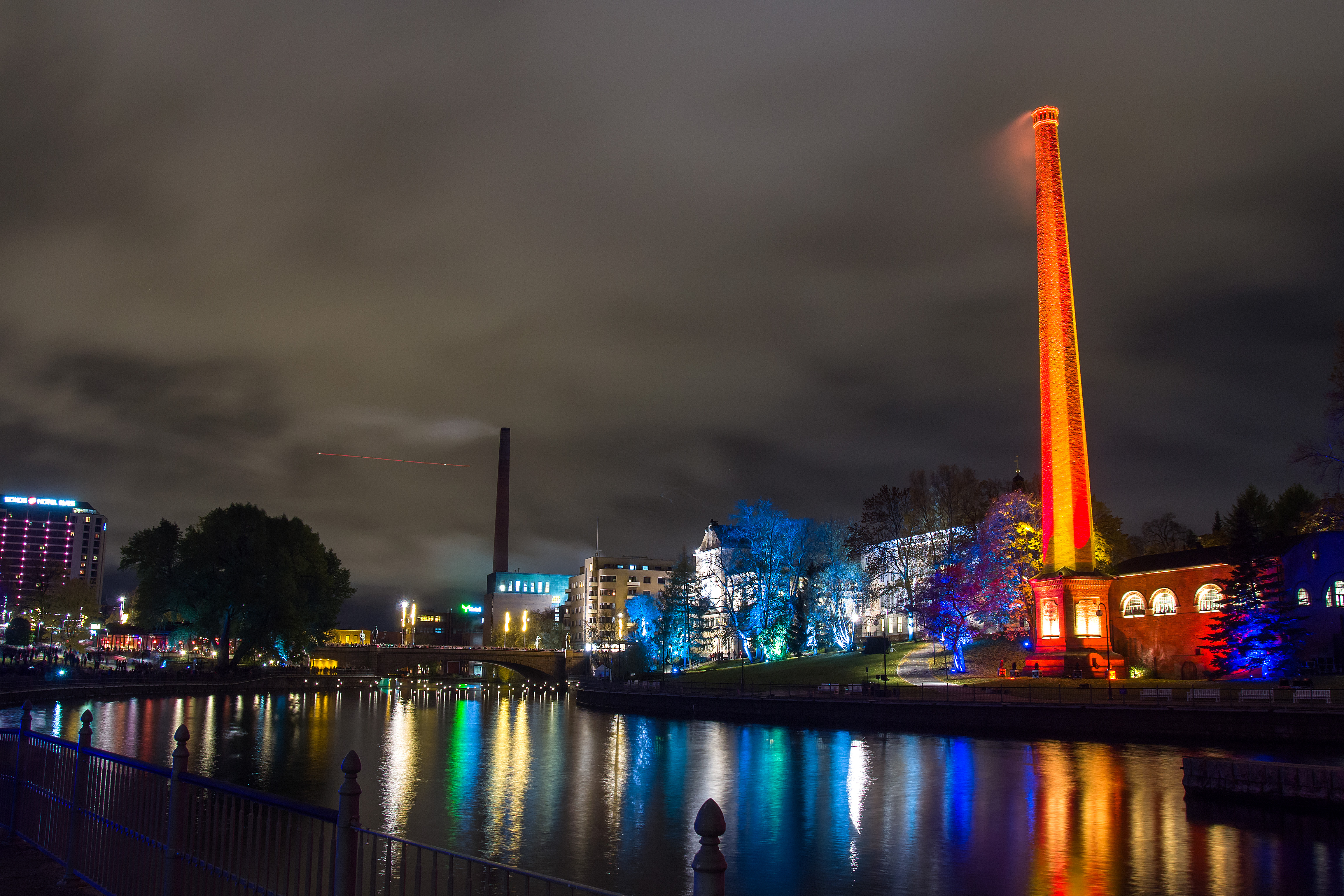 Rapids of Tammerkoski during the opening of the Tampere Festival of Light 2015